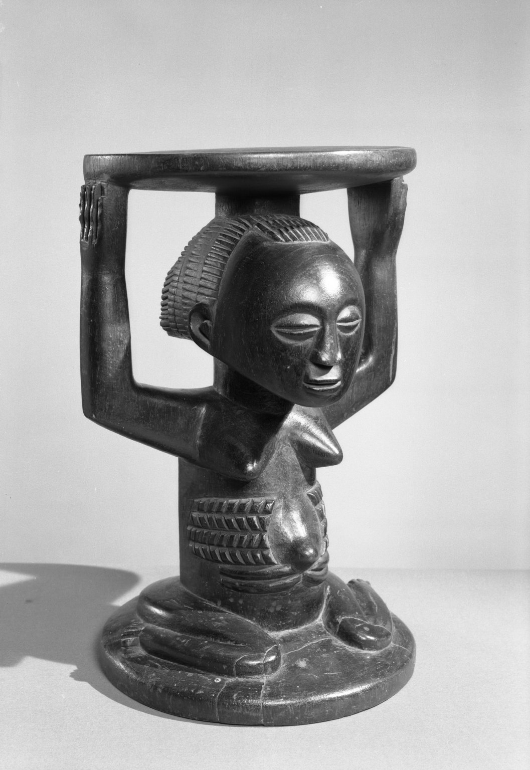 Stool